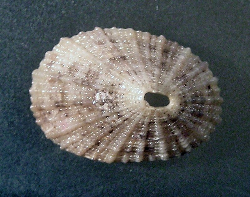 Diodora quadriradiata, a keyhole limpet from the family Fissurellidae; Philippines